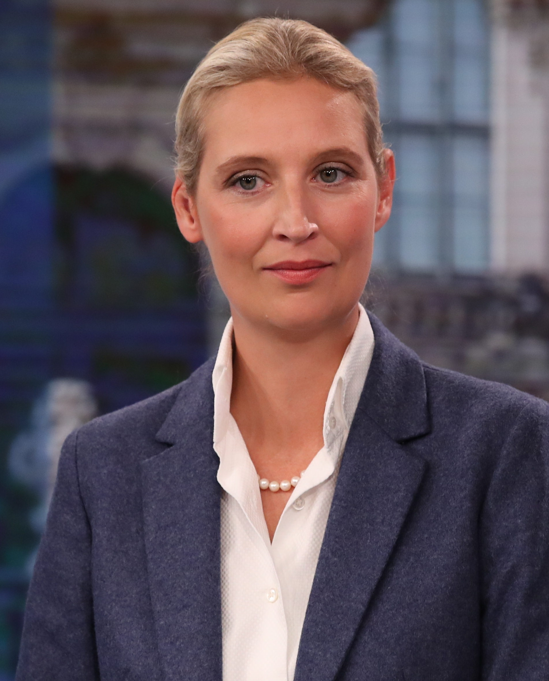 Election night Saxony 2019: Alice Weidel (AfD)